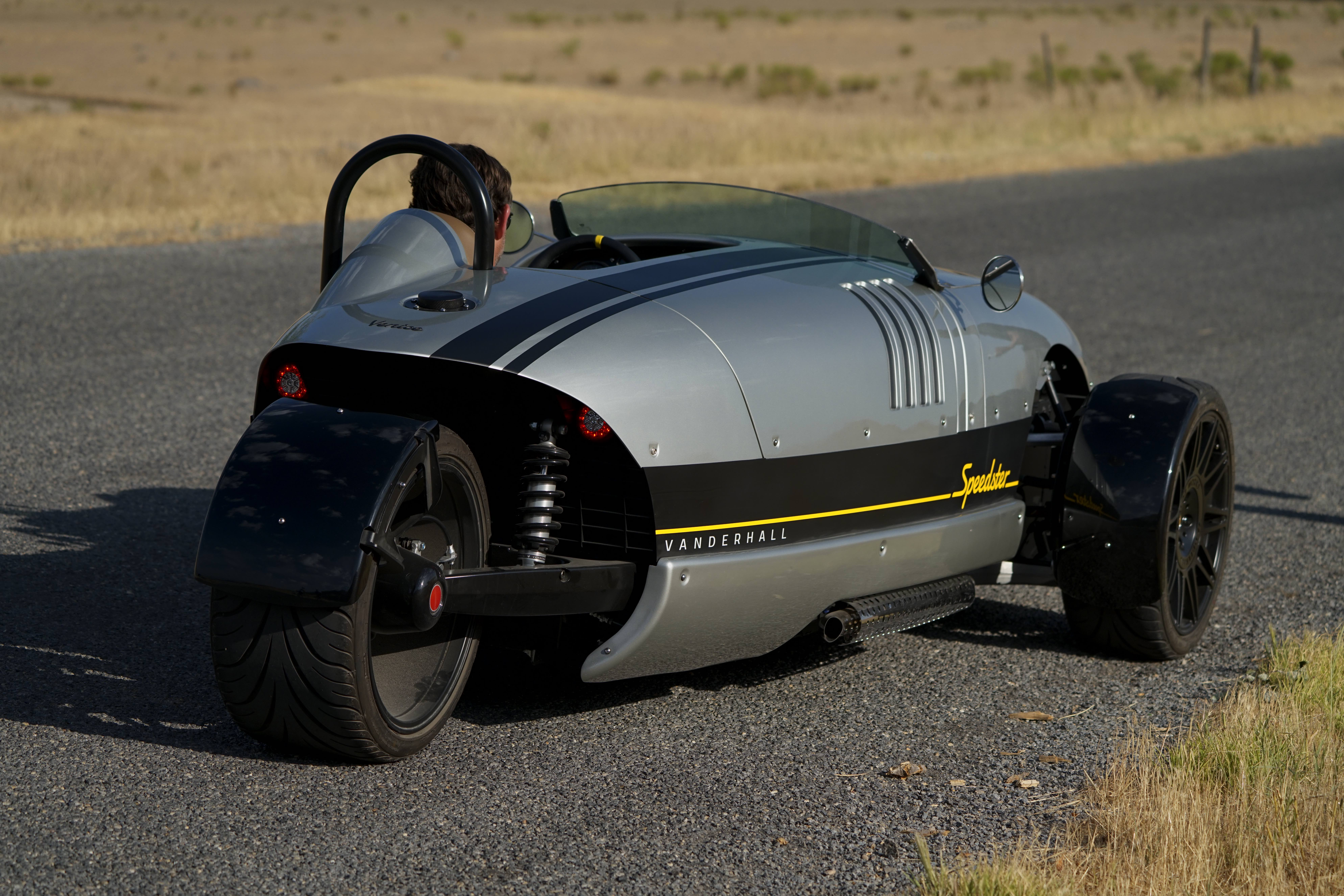 Vanderhall One-Seat Venice Speedster Autocycle